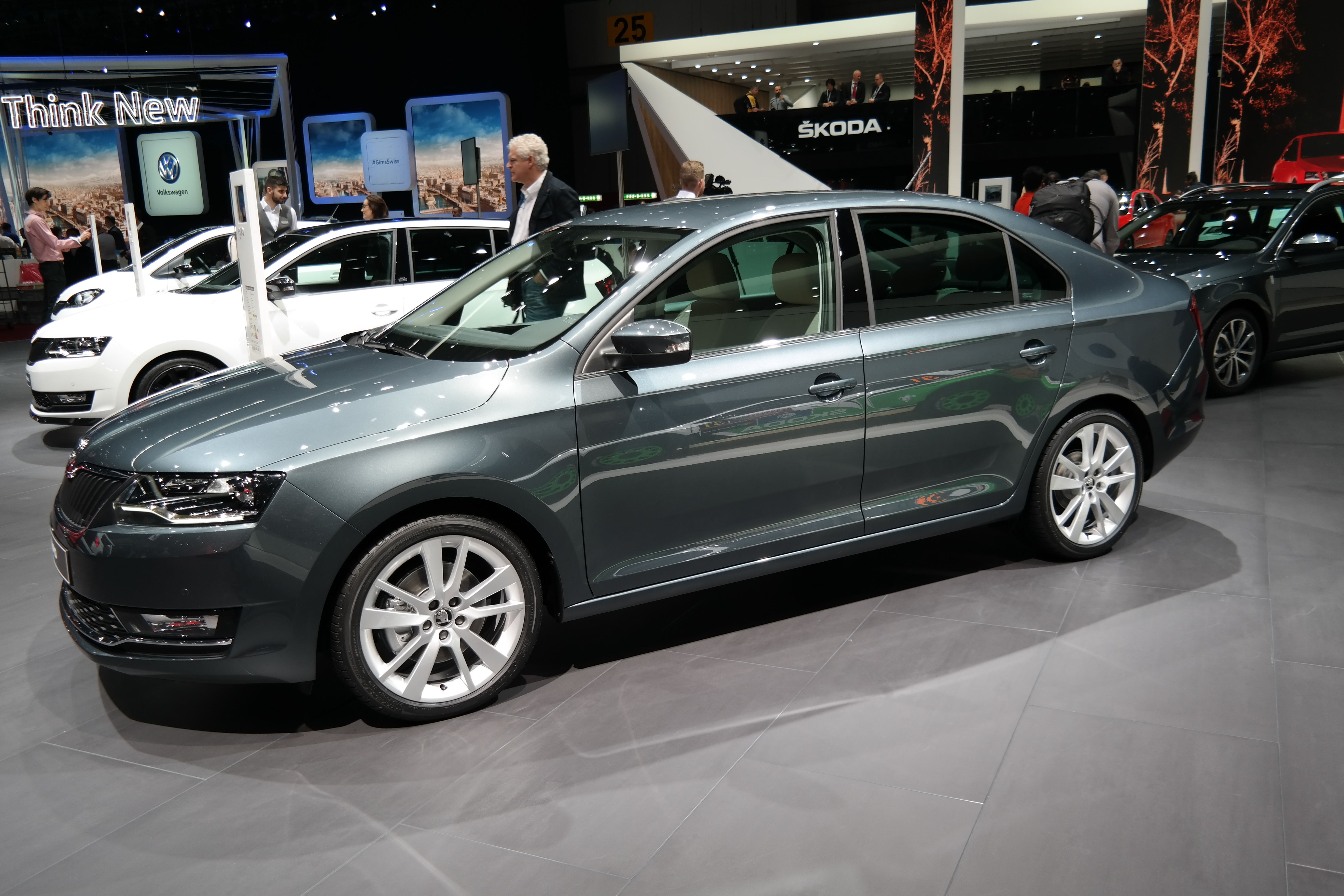 Geneva Motor Show 2017 (photo taken on the first press day)